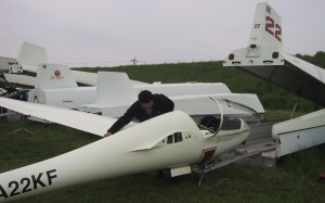 At Itakura Gliderport, Gunma, Japan. A single seater high performance sailplane is being rigged out of its trailer. Derigging is a reversed process.